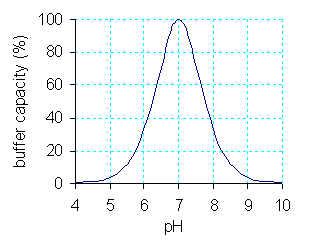 Buffer solution- Buffer capacity for pKa=7 as percentage of maximum